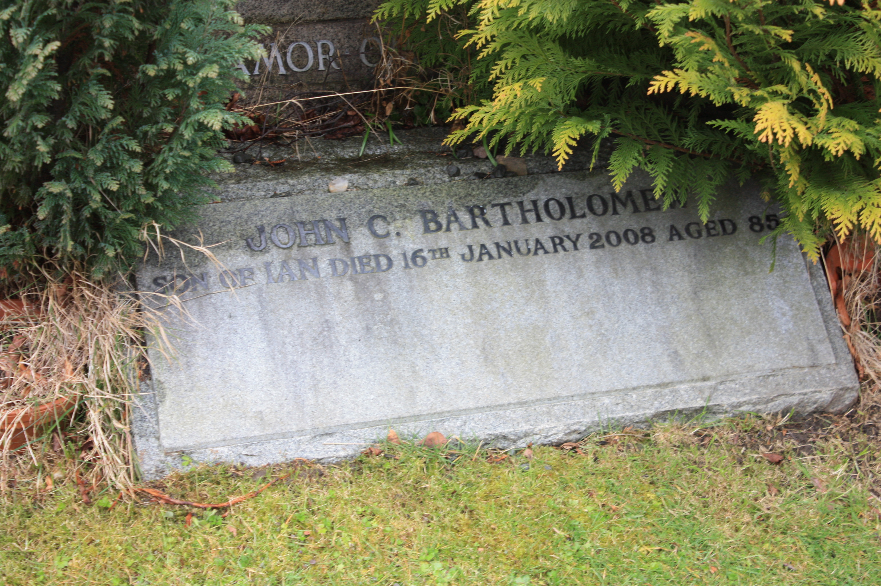 John Christopher's name at the foot of the Bartholomew monument